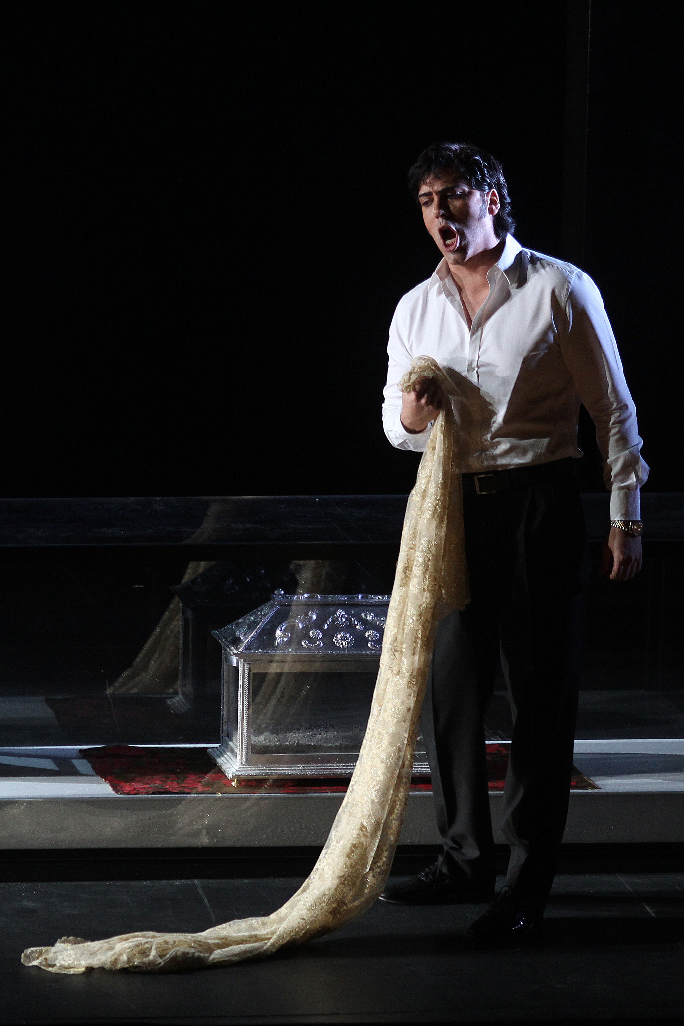 Giancarlo Monsalve in the title role of Giuseppe Verdi's 1867 opera Don Carlo, Teatro São Carlo, Lisbon, Portugal 2011. Premier